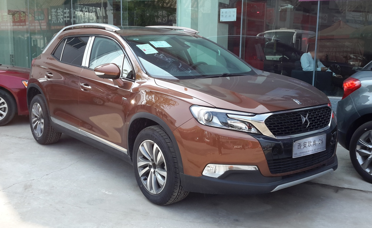 DS 6 photographed in Xi'an, Shaanxi province, China.